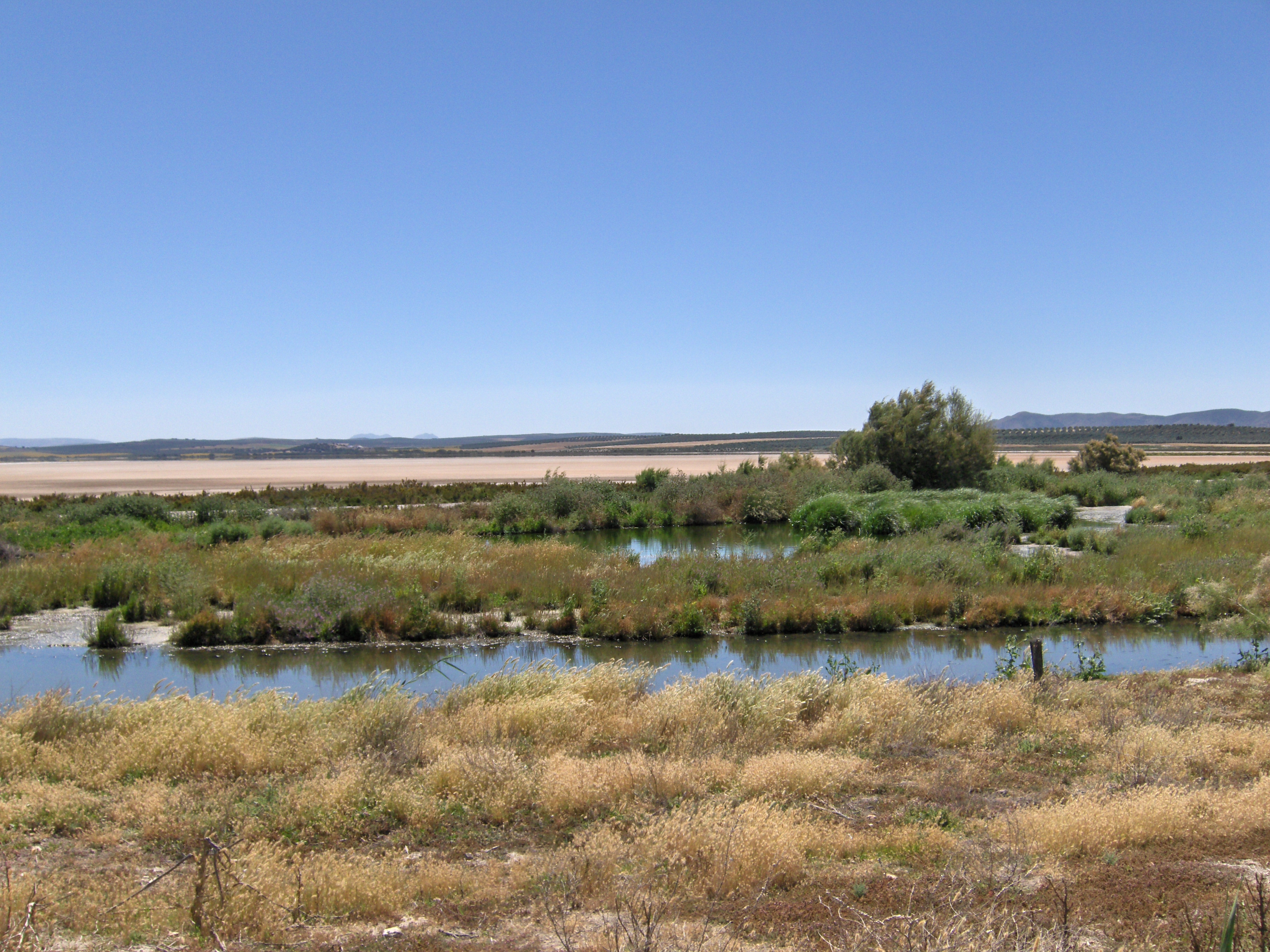 Lagoon of Fuente de Piedra